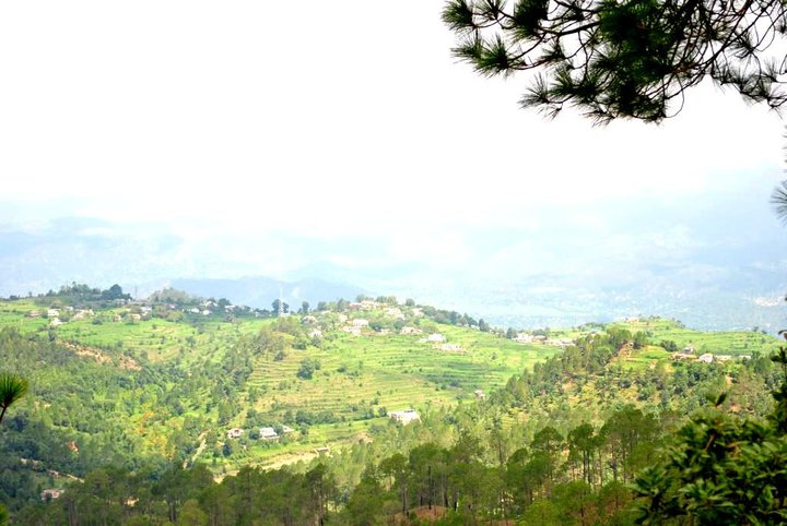 A Panoramic view of Pine and Oak trees, Ranikhet in Uttarakhand in northern India.